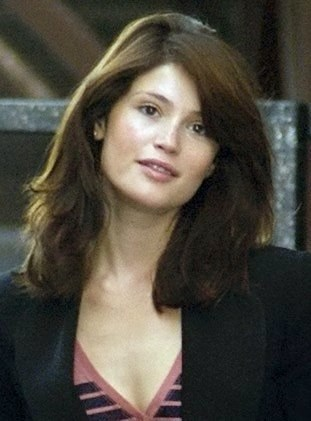 Actress Gemma Arterton in 2010.